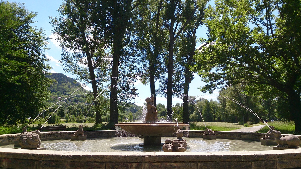 Märchenbrunnen im Paradiespark